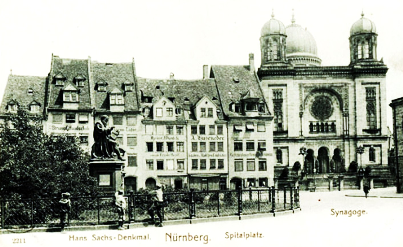 Great Synagogue of Nuremberg - 1874-1938